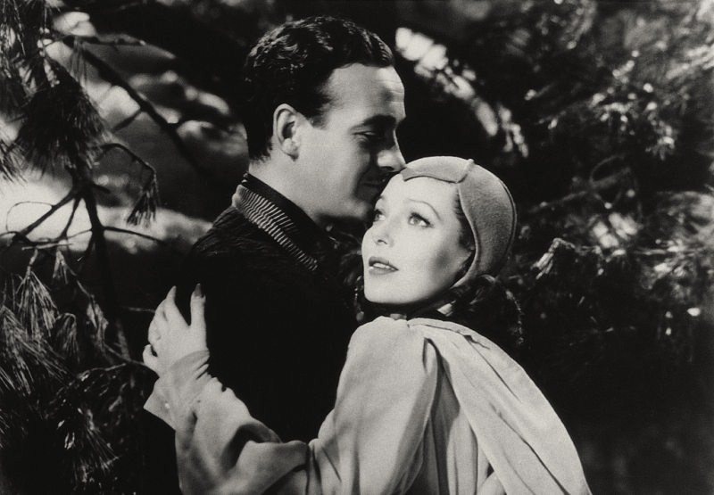 David Niven and Loretta Young in the film Eternally Yours (1939) - cropped screenshot